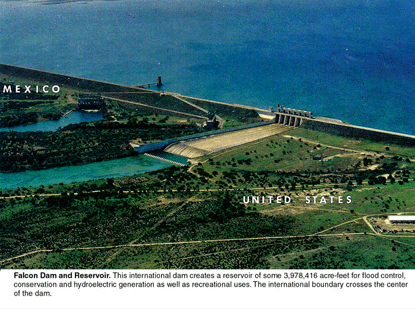 Falcon Dam, Texas/Mexica